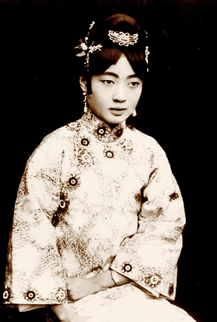 Photograph of the Qing Dynasty Empress Gobele Wan-Rong of XuanTong.